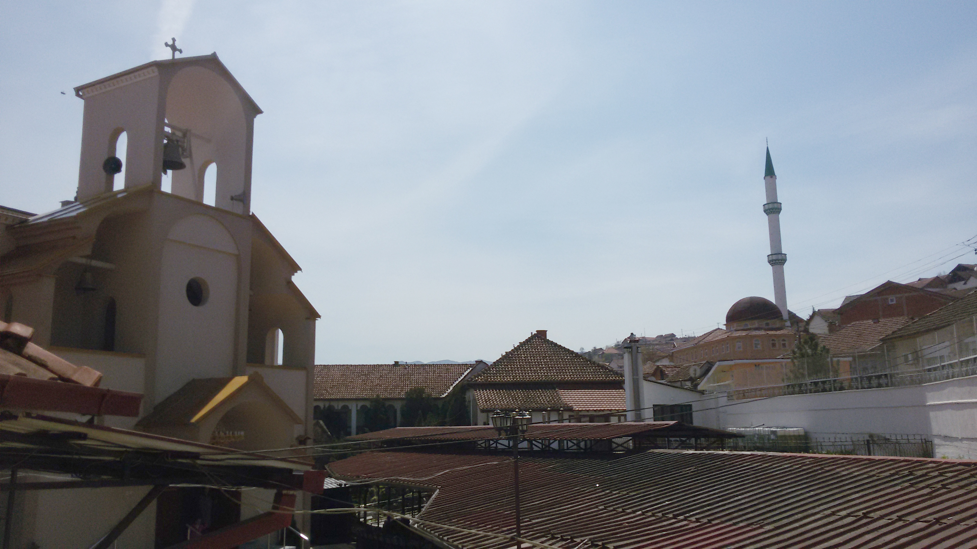 Sts. 15 Martyrs of Tiveriopolis